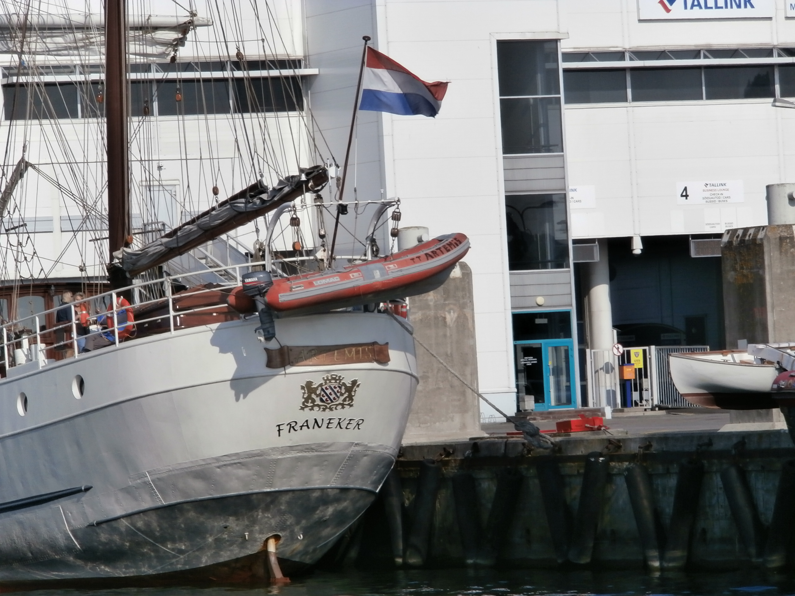 Artemis Franeker Flag Tallinn 25 July 2013